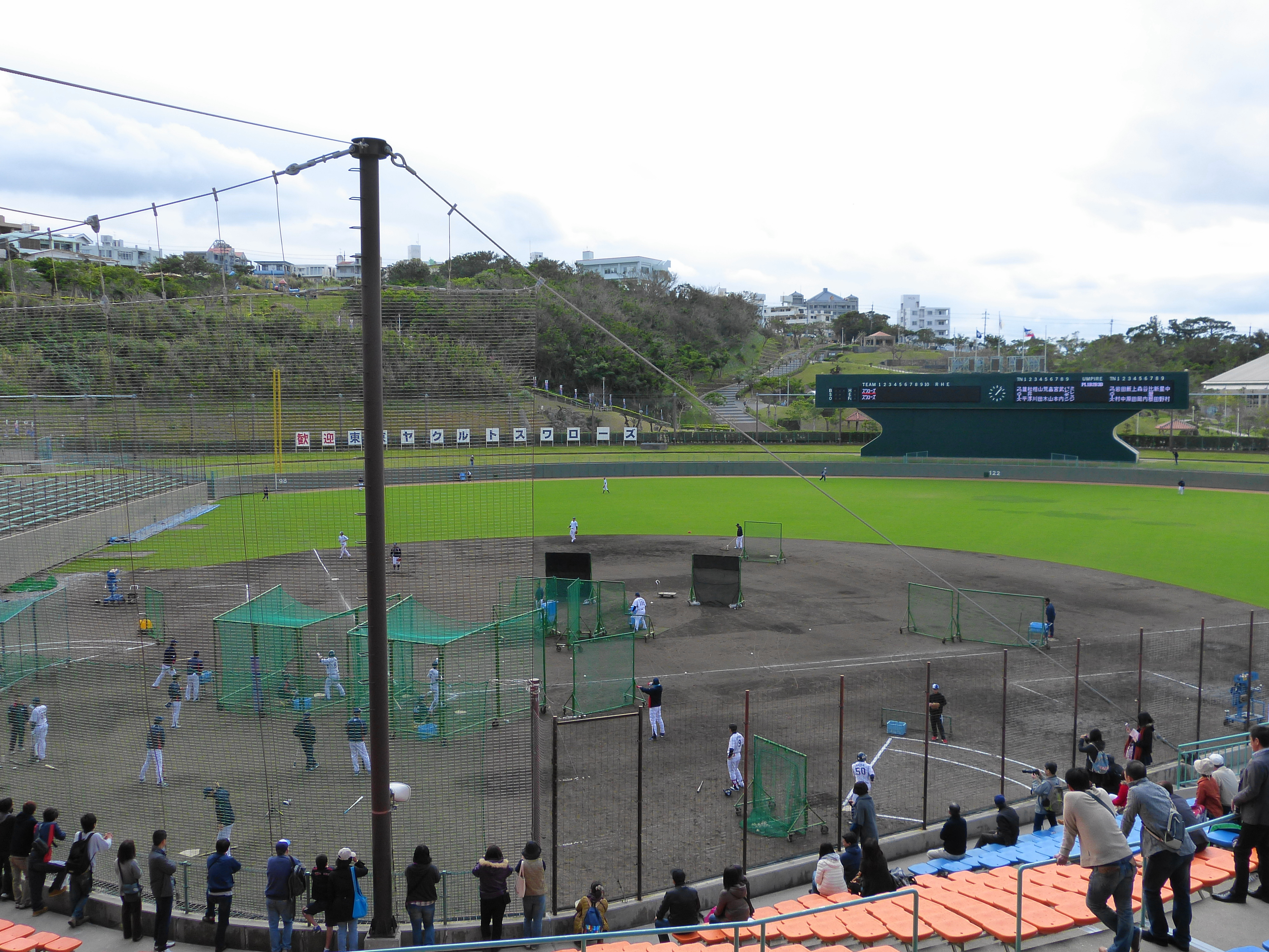 Urasoe Municipal Baseball Stadium,Okinawa prefecture,Japan